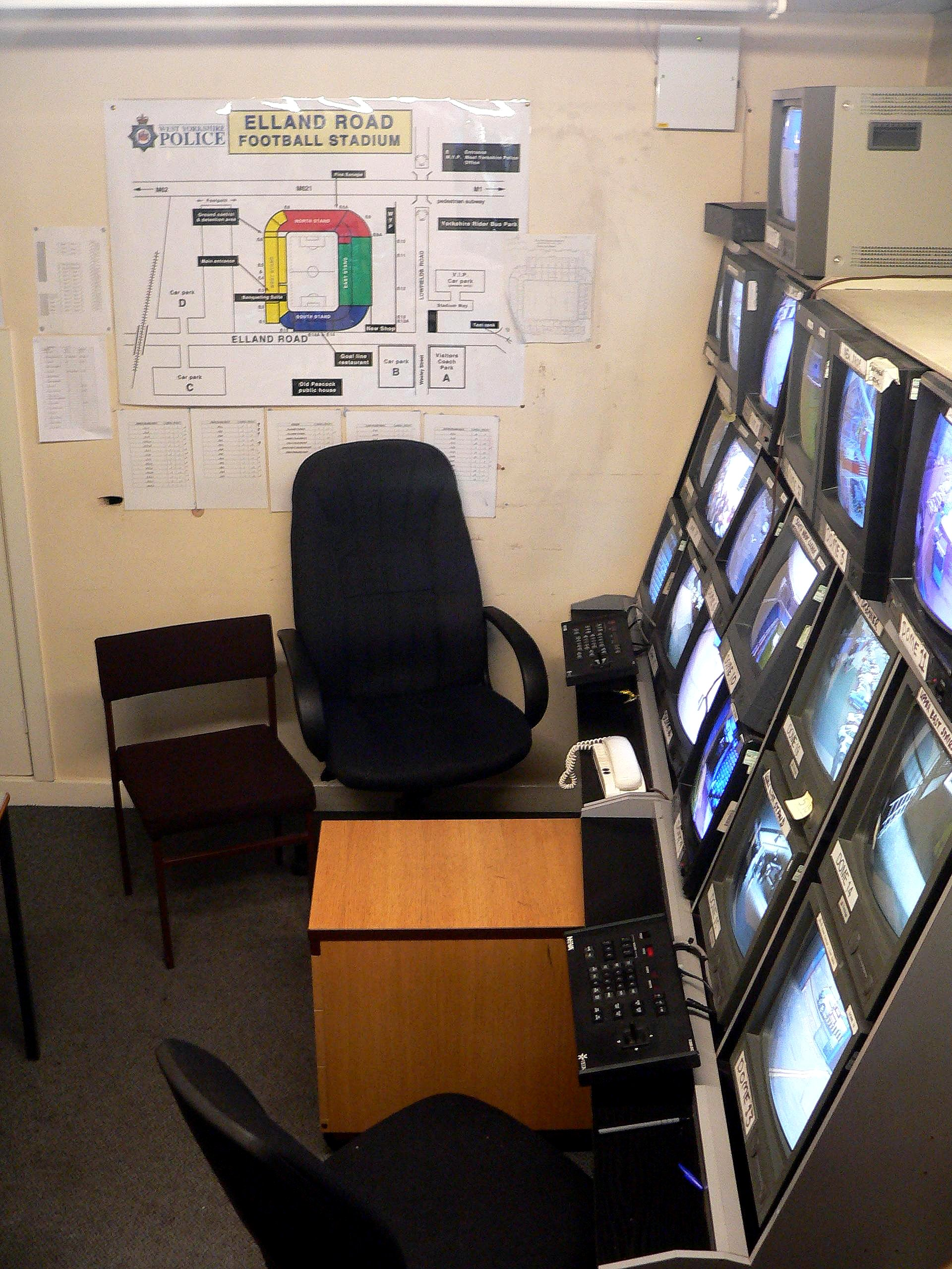 The West Yorkshire Police control statiom, showing CCTV at the Elland Road football ground in Leeds.jpg